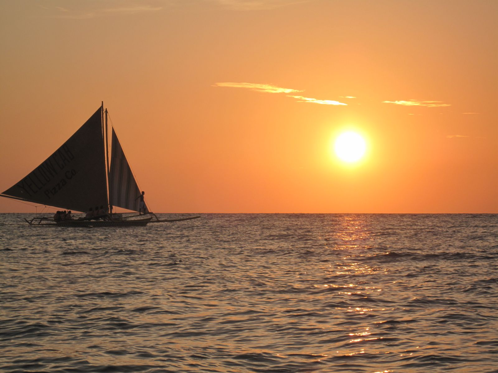 A sailing paraw. Sunset sailing is a popular leisure activity among tourists.